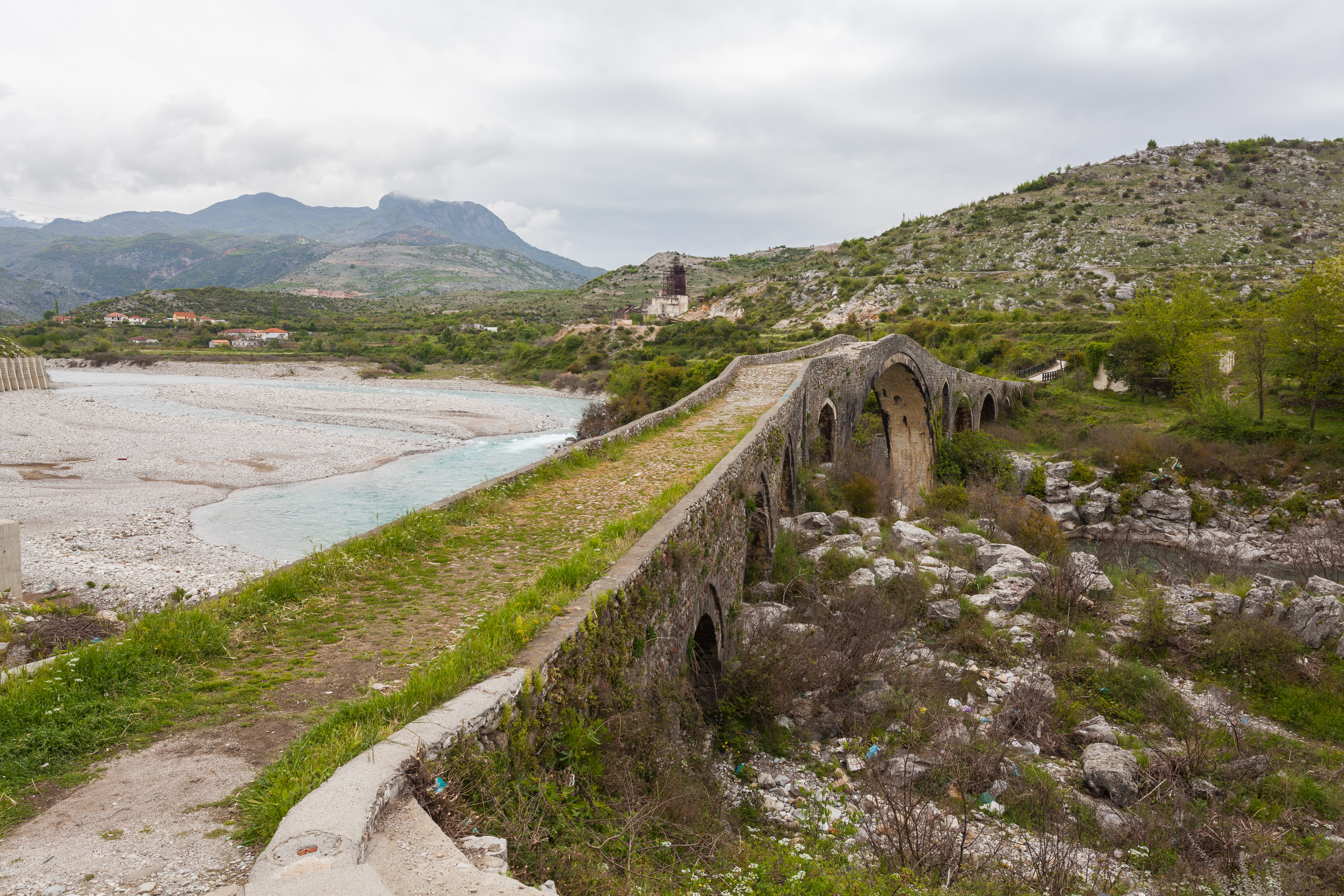 Mes Bridge, Mes, Albania